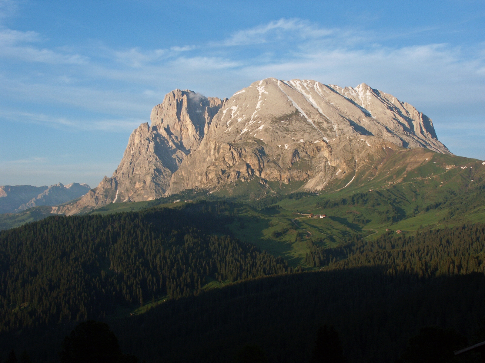 Plattkofel (Dolomites, Italy); Evening view.